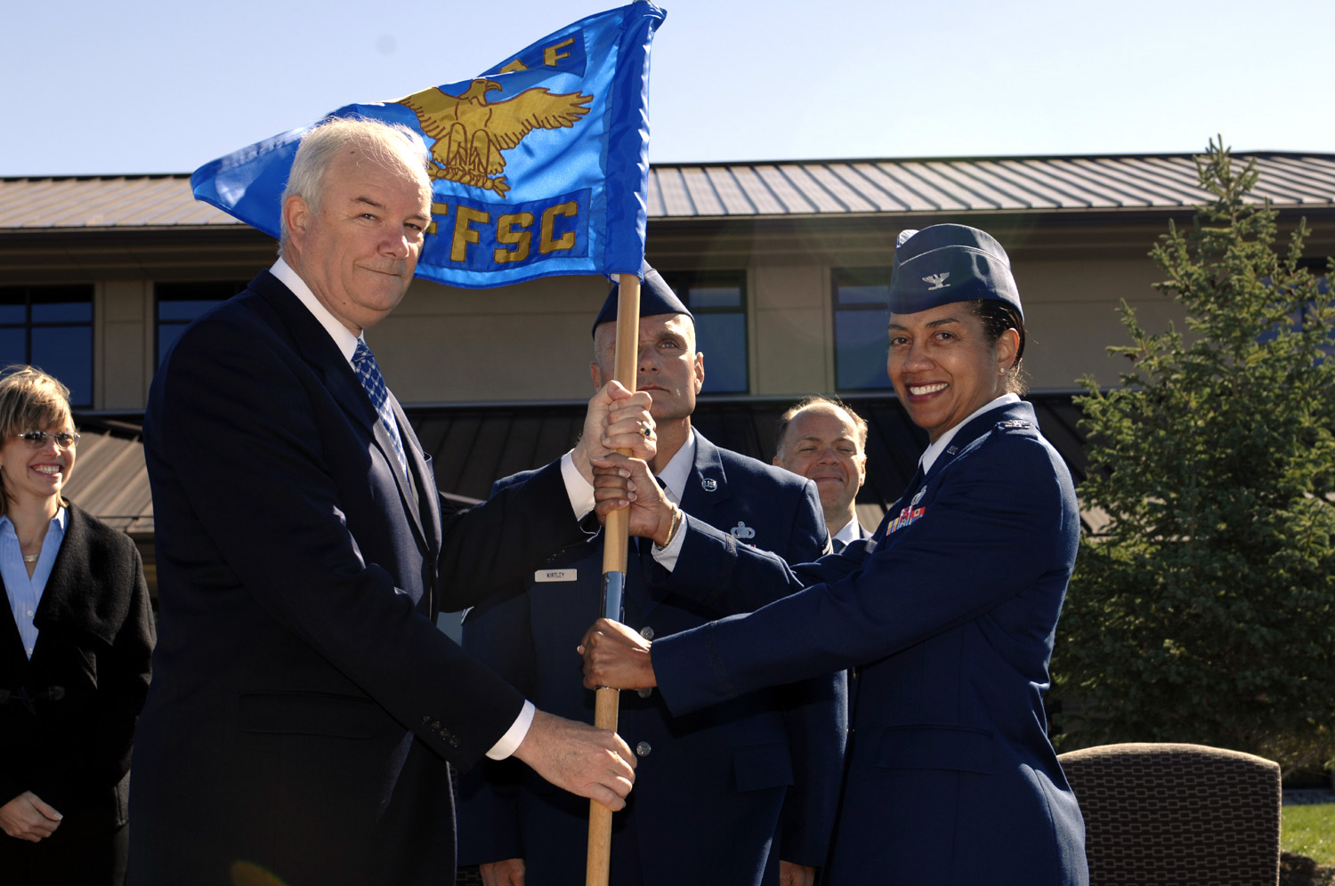 Colonel Judy Perry accept command flag of the Air Force Financial Services Center from Secretary of the Air Force Michael Wynne